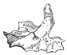 Development of the superior maxillary bone, by four centres. Anterior surface.